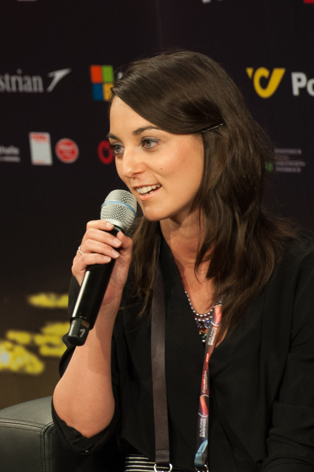 Eurovision Song Contest Vienna 2015: Boggie